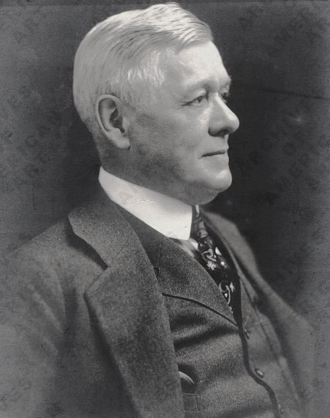 John Massey Rhind Achives of American Art ca. 1923